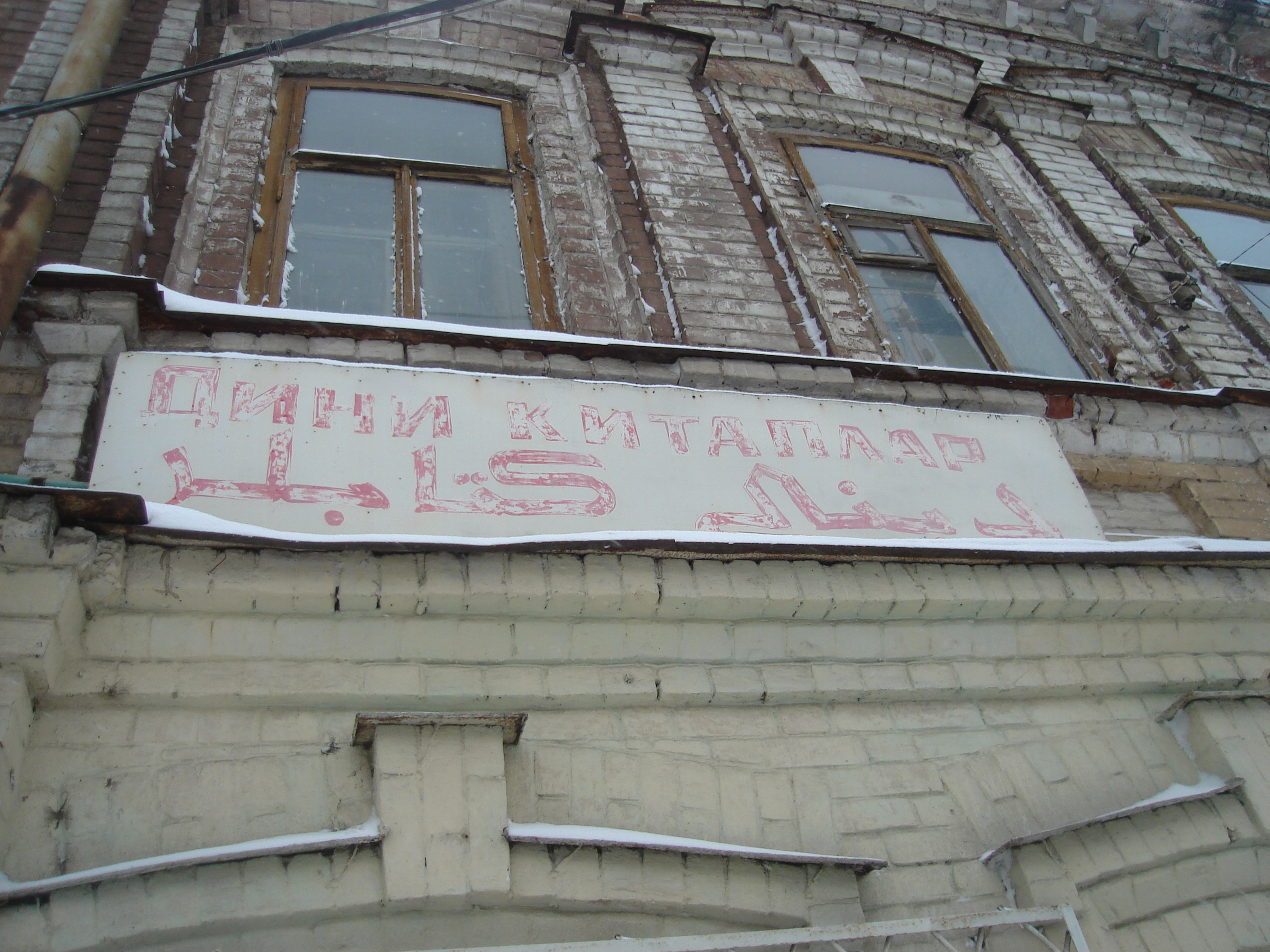 "Дини китаплар" (Dini kitaplar) means religious books in Tatar language This signboard is in Cyrillic and Iske Imla alphabets. Arabic is frequently used for the Tatar language for religious purpose